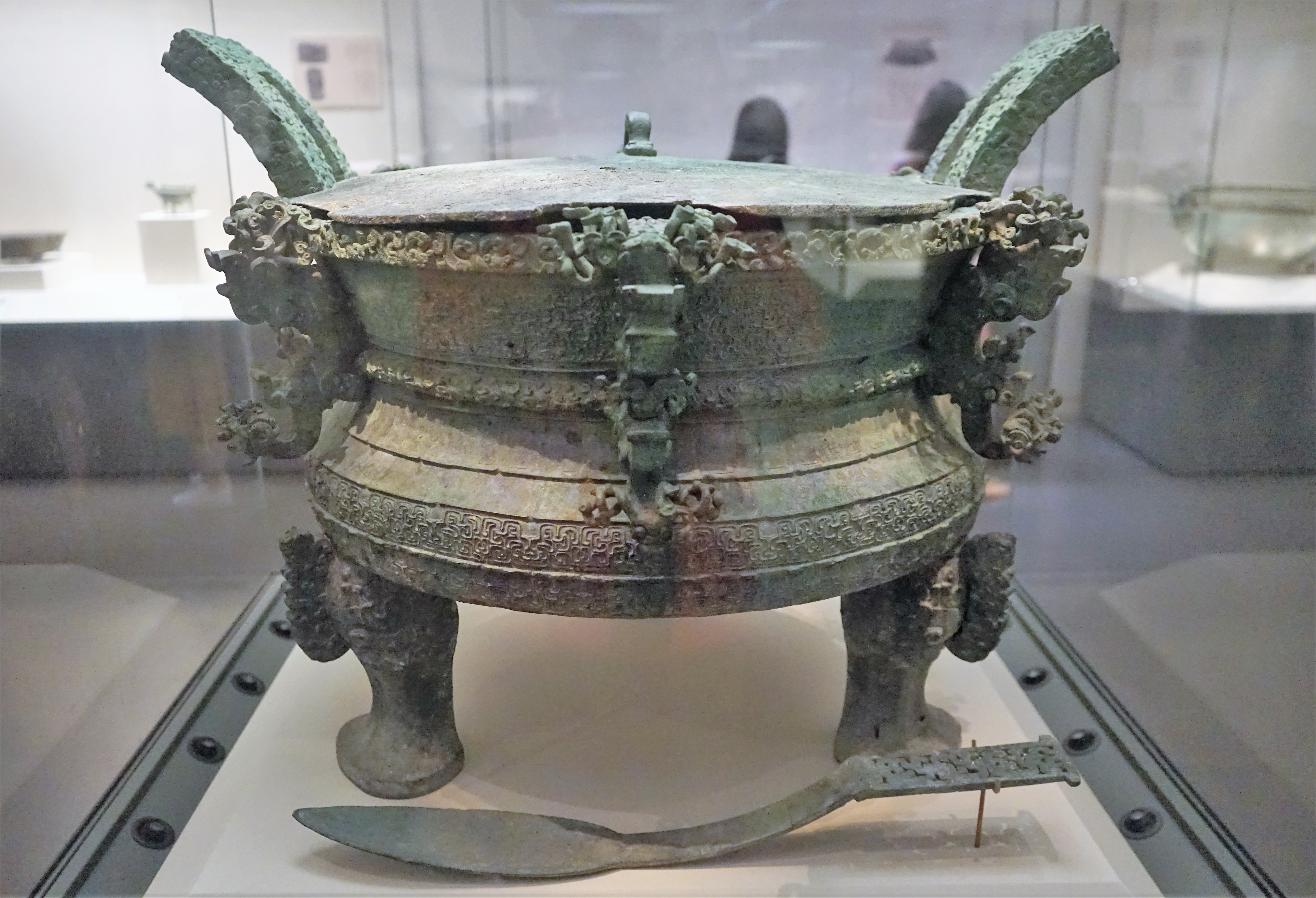 "Wangzi Wu" Bronze Ding (food container). Spring and Autumn period, Chu state. Unearthed from Tomb 2 at Xiasi, Xichuan, Henan Province, 1978. The eighty-four-character inside the Ding documents that the benevolent ruler of Wangzi Wu worshipped his ancestors and prayed for his offspring. According to historical records, Wangzi Wu was a son of King Zhuang.